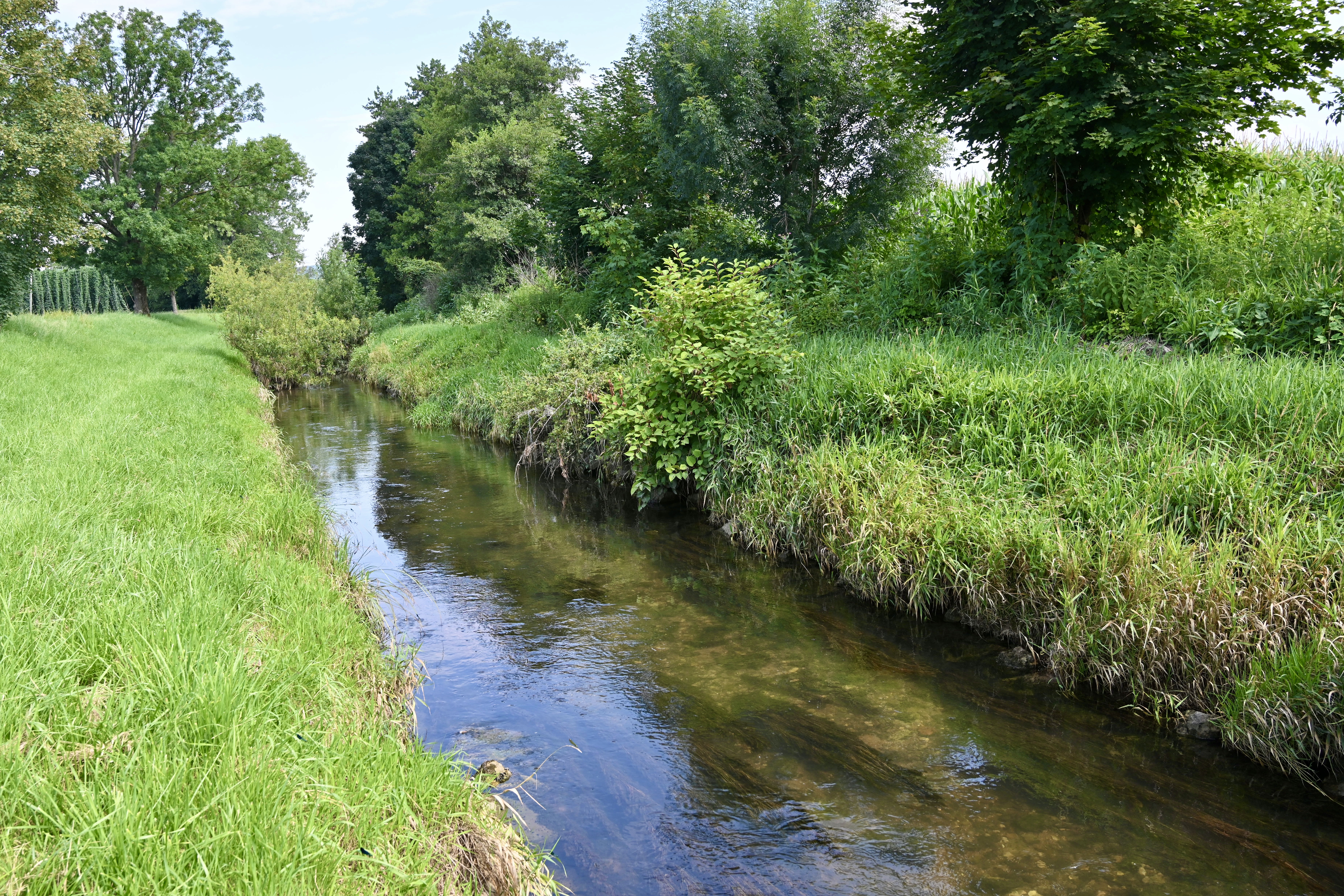 River Ložnica, a tributary of the river Savinja in Slovenia. Ložnica was regulated in the early 1950s.